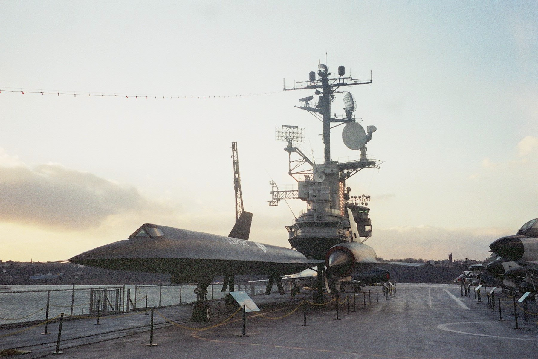 exhibits on the USS Intrepid aircraft carrier, in the harbour of New York Copyright © 2003 David Monniaux